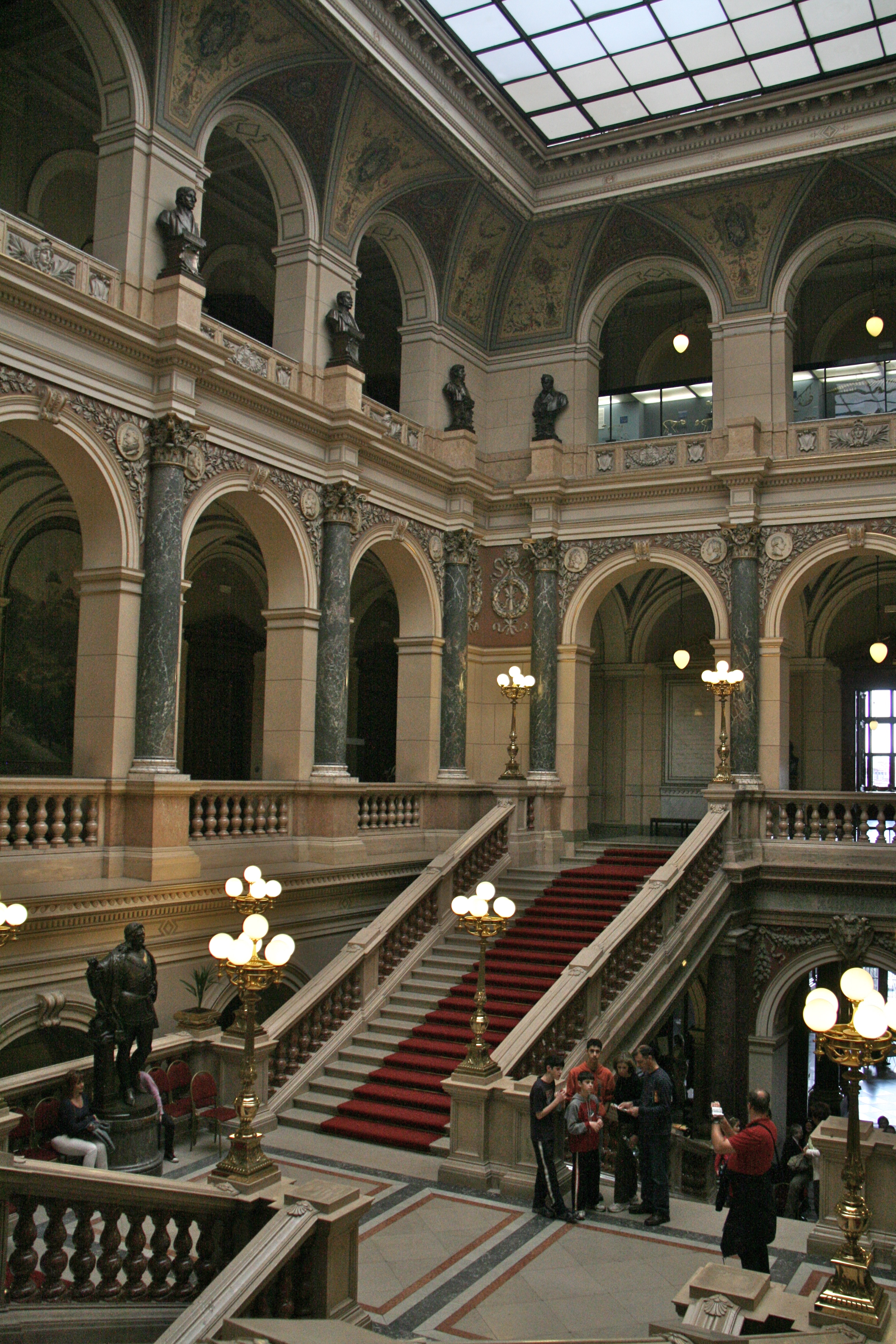 Narodni Museum